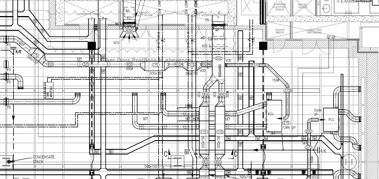 An excerpt from a building services (HVAC) coordinated working drawing of 1:50 scale